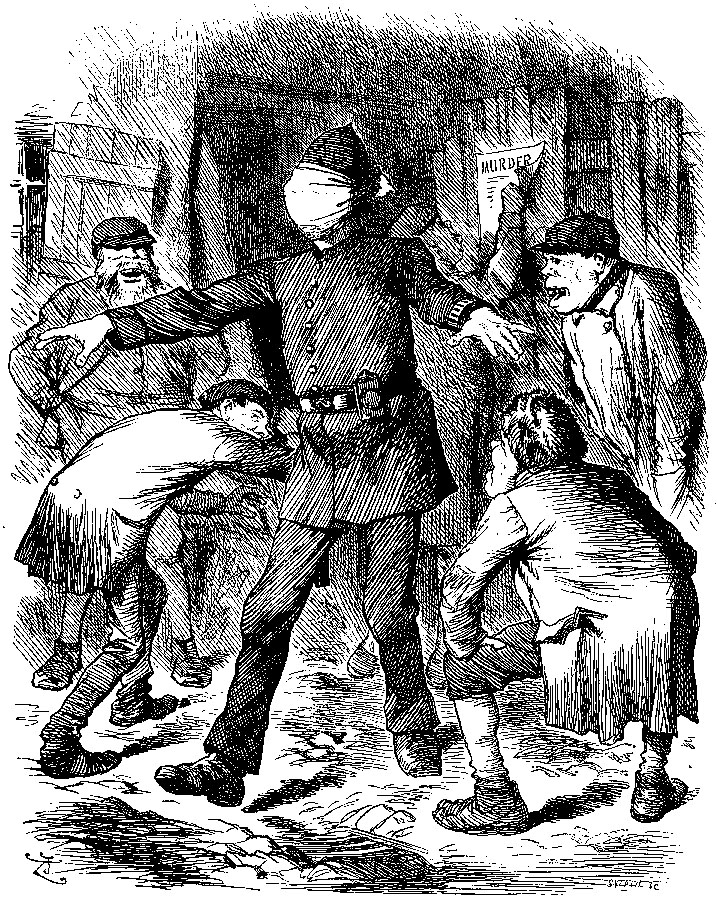 cropped version of File:Ripper cartoon punch.png converted to jpg format